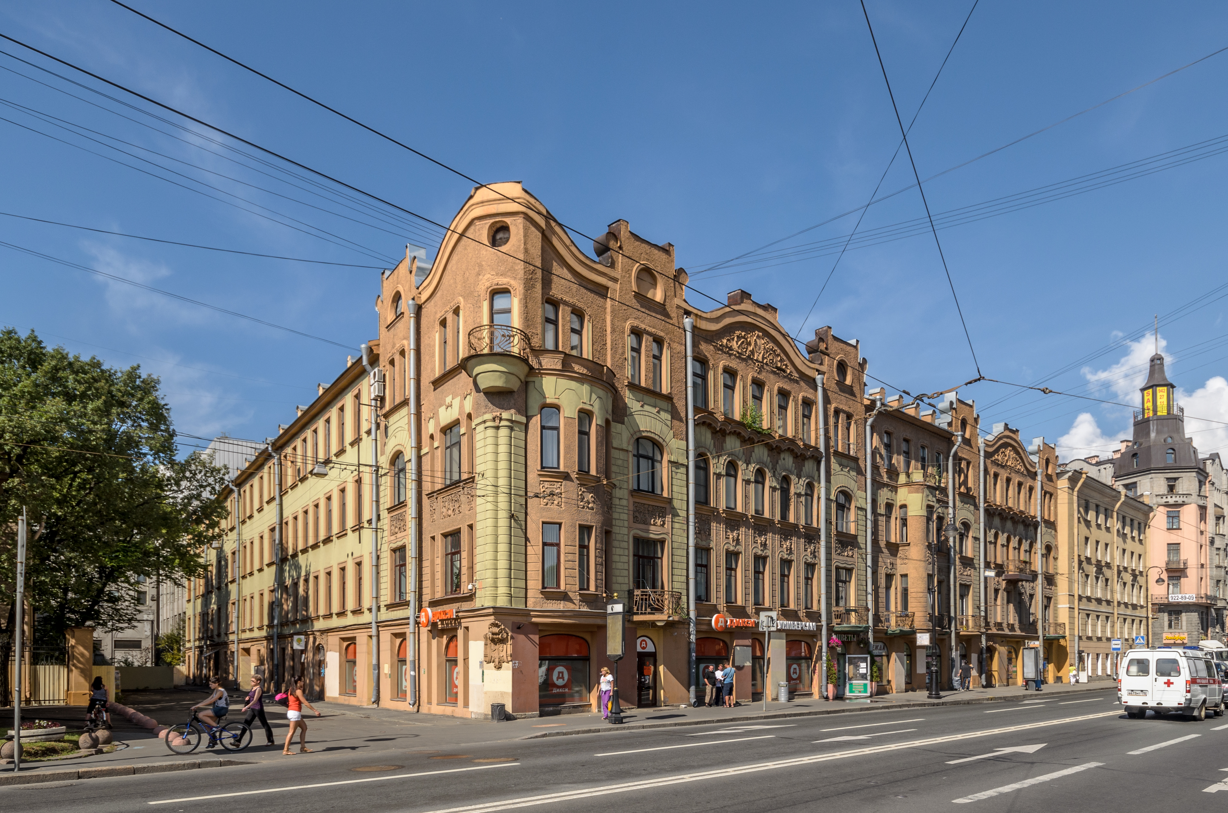 Kamennoostrovsky Avenue in Saint Petersburg